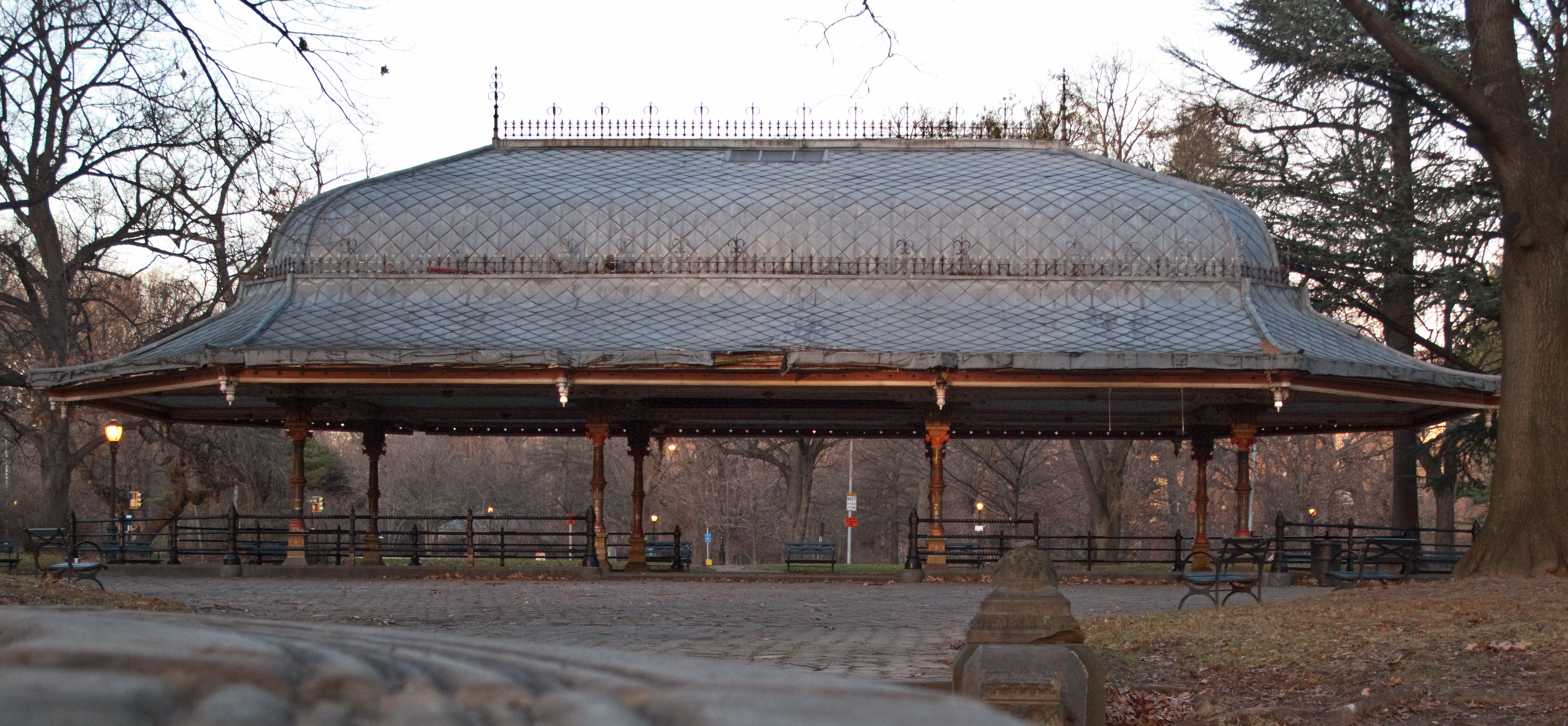 The Oriental Pavilion in Prospect Park, Brooklyn, New York.